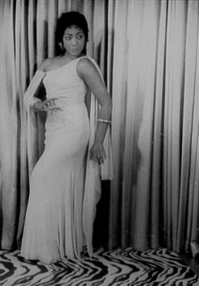 Portrait of Gloria Davy, as Aida, Act II, Scene I.